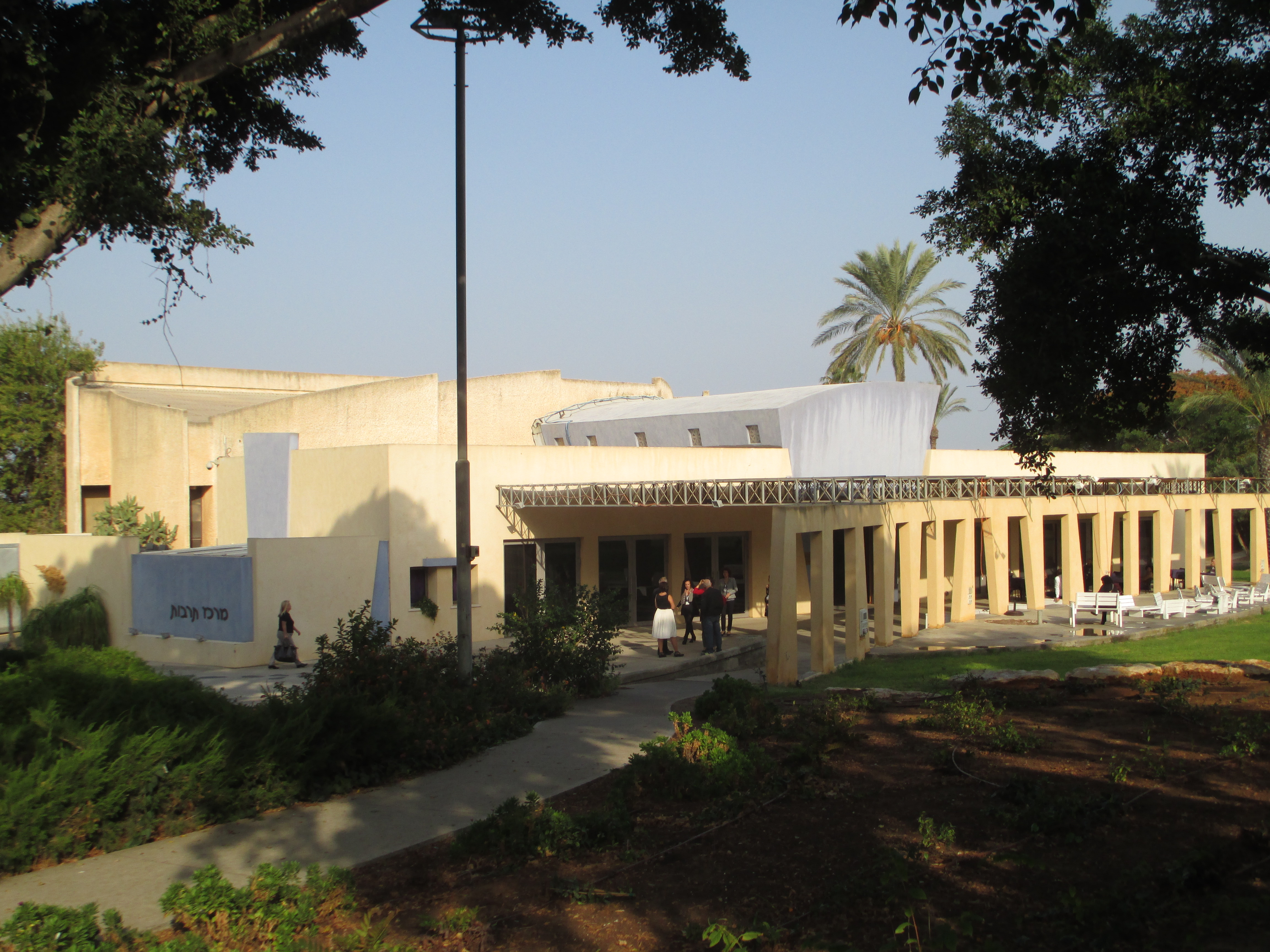 Culture center in Kibbutz Shefayim